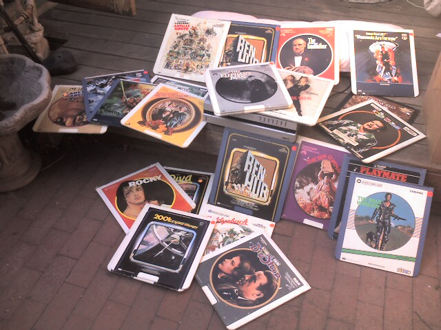 Anyone want a bunch of Capacitance Electronic Discs? They are analog records with video encoded on them - pre-VHS home theater technology. free, or best offer!